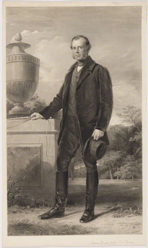 by John Richardson Jackson, after George Richmond, mixed-method engraving, 1869